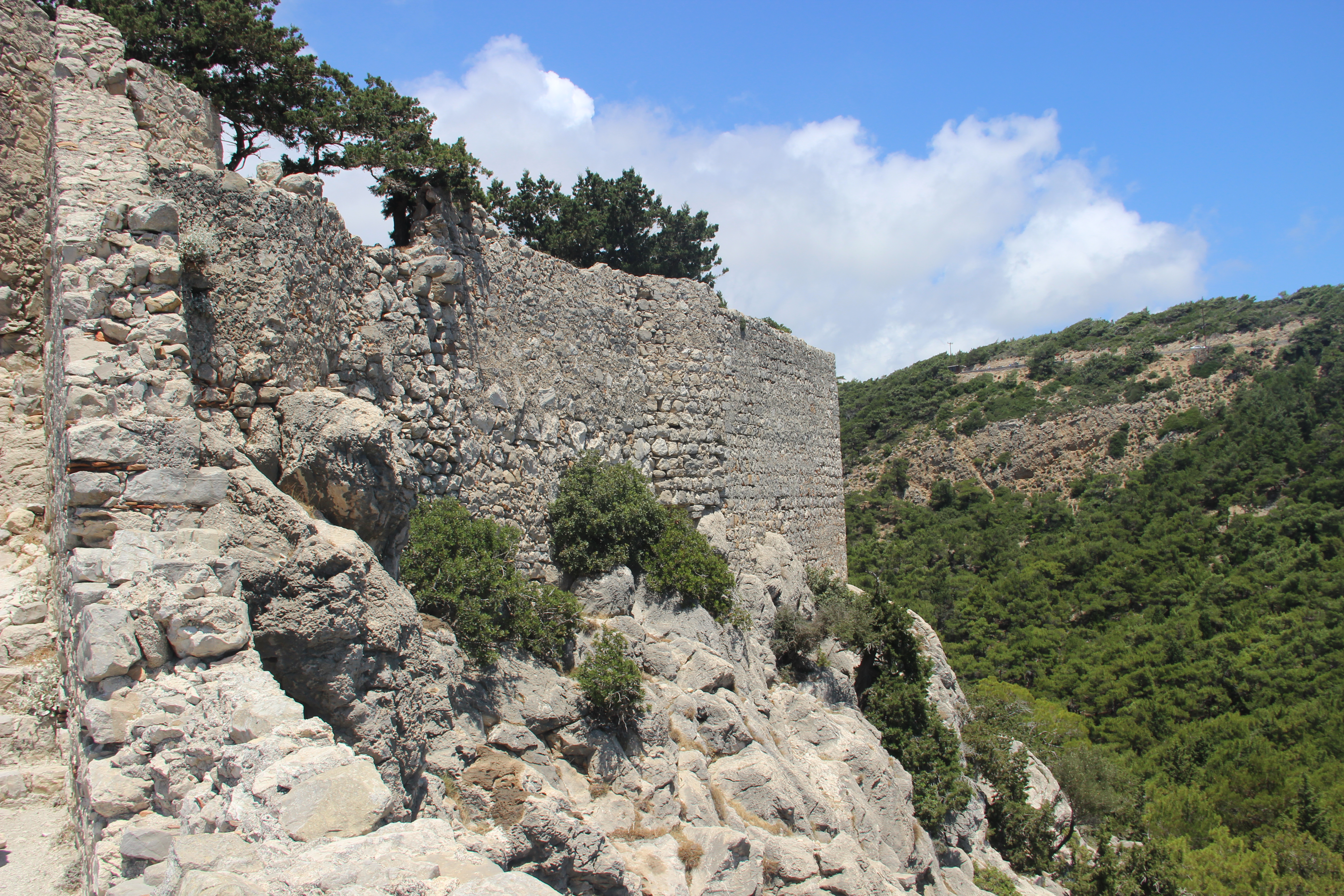 Castle Monolithos. Rhodos. Greece. Июнь 2014